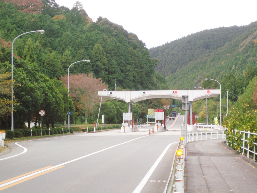 Otowa-Gamagori Toll Road (音羽蒲郡有料道路 Otowa-Gamagōri Yūryō Dōro), in Nagasawa, Otowa, Aichi, Japan